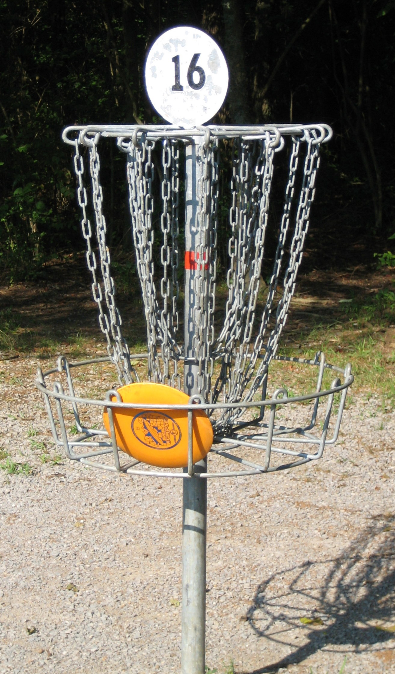 Craig's hole-in-one